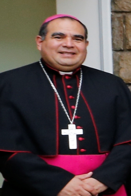 Bishop Juan Carlos Vera Plasencia, M.S.C.